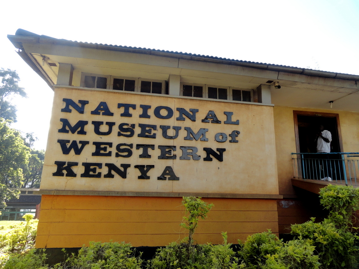 National Museum of Western Kenya in Kitale, November 2019